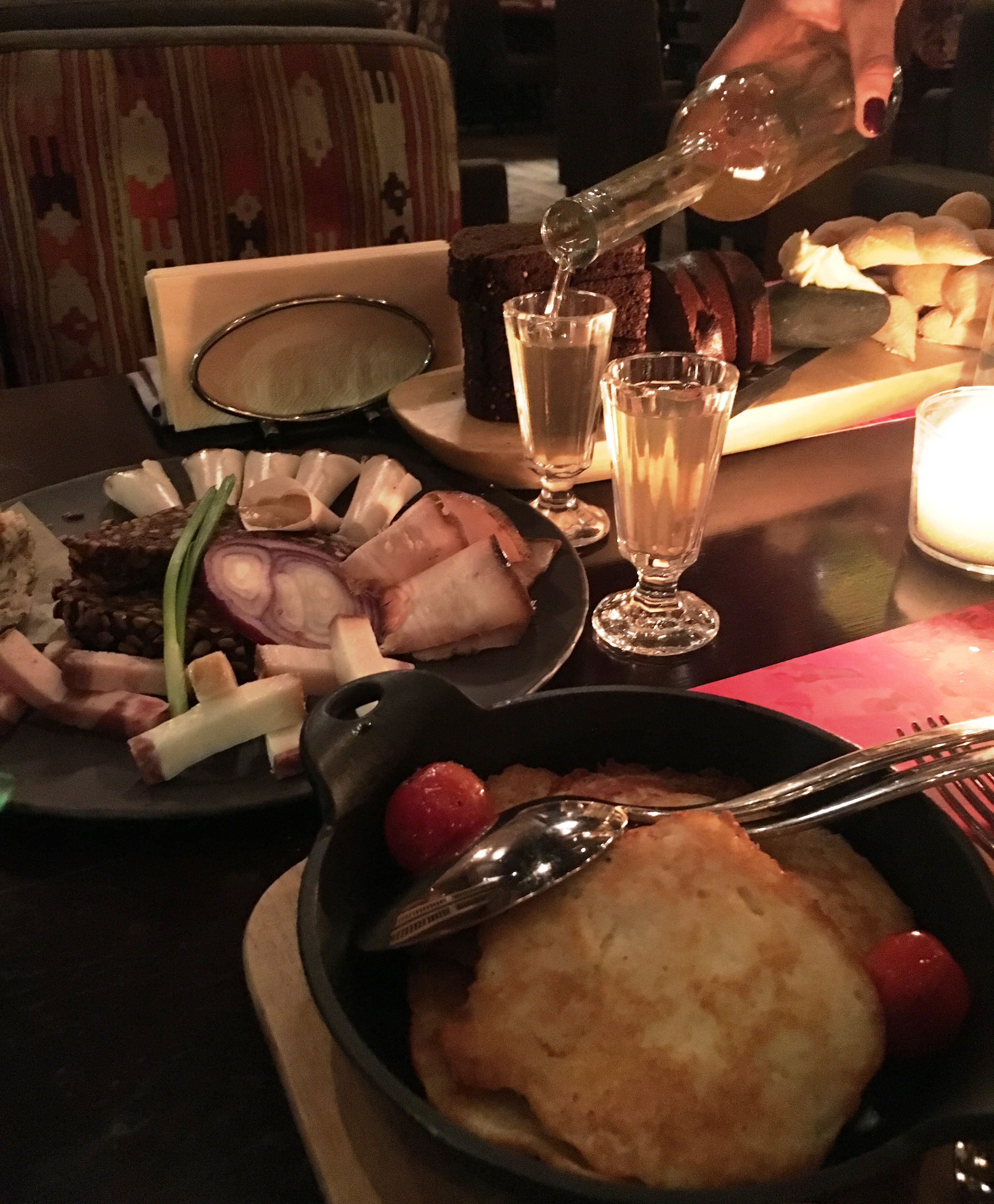 Potato pancakes, assorted bacon and horseradish vodka served at one of Moscow restaurants